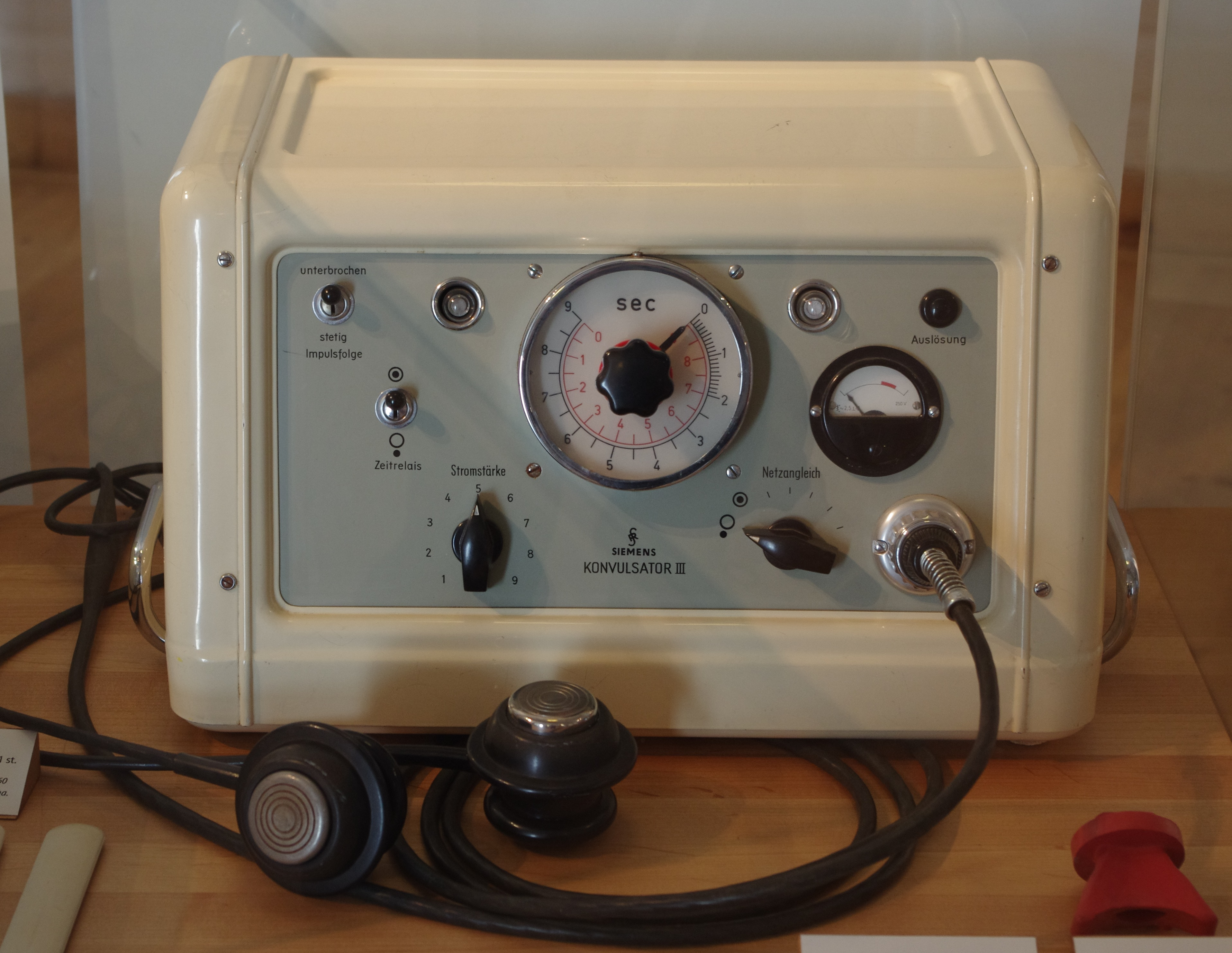 Siemens konvulsator III ECT machine from ca 1960.